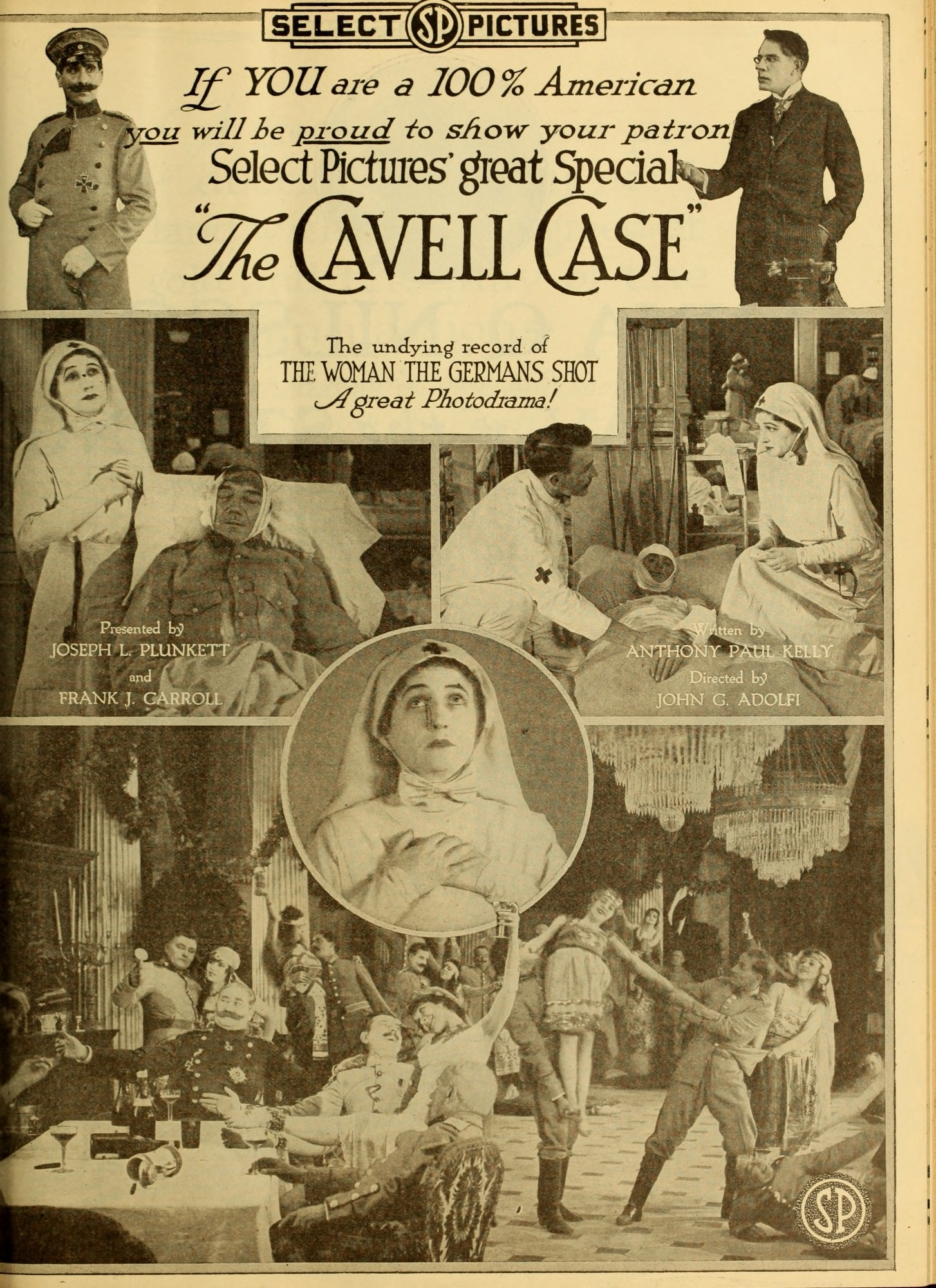 Advertisement in Moving Picture World, March 1919 for The Cavell Case aka The Woman the Germans Shot (1918).